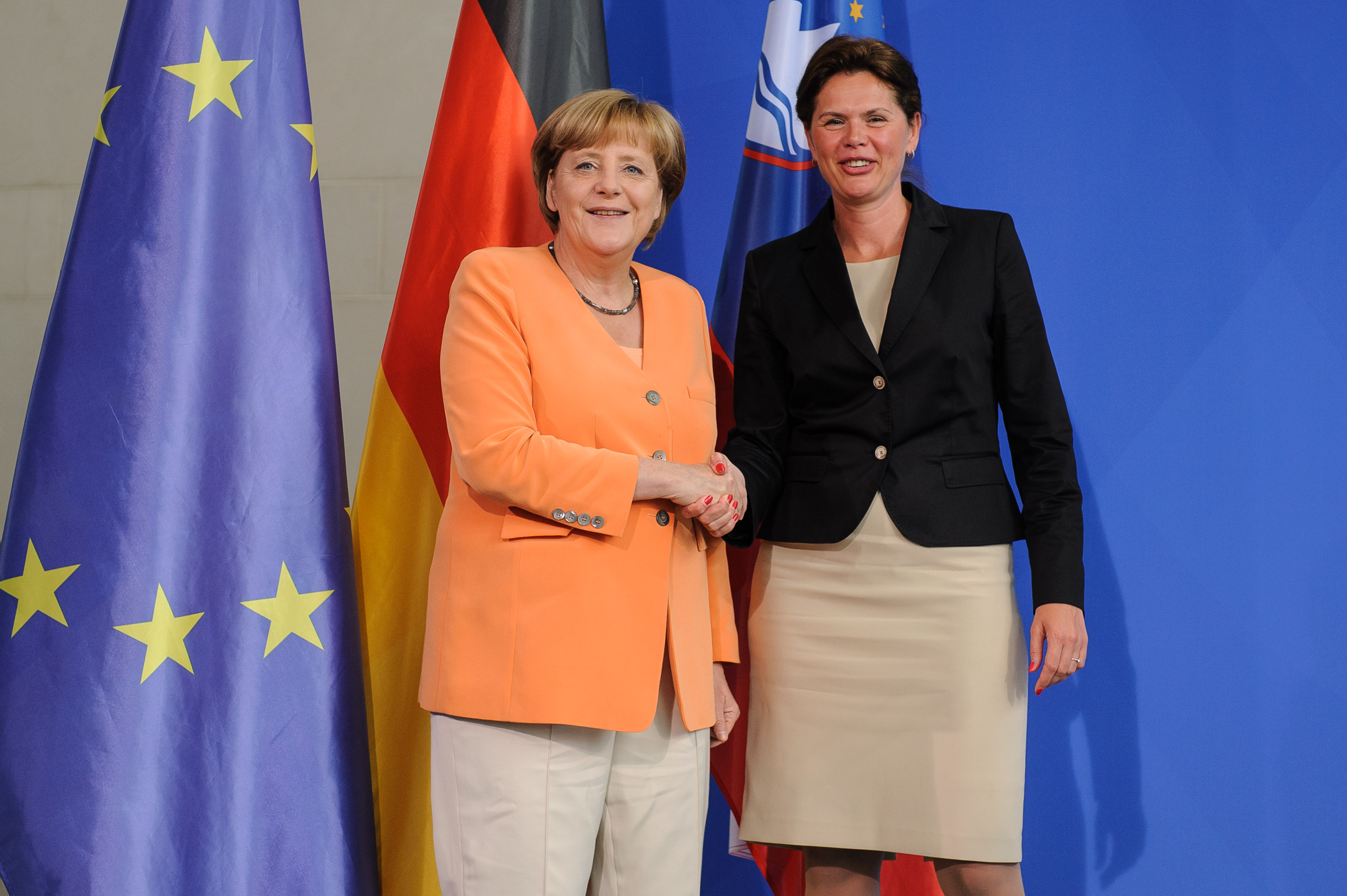 Alenka Bratušek in Germany